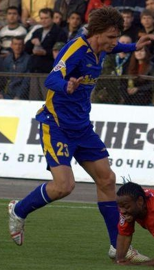 Sergei Bendz in action for FC Rostov